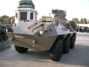 Pandur wheeled armoured vehicle.